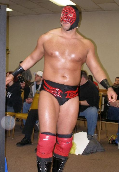 Professional wrestler Sicodelico, Jr. at a Chikara event